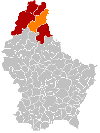 Clervaux municipality location after merging of municipalities (valid from 1 January 2012)